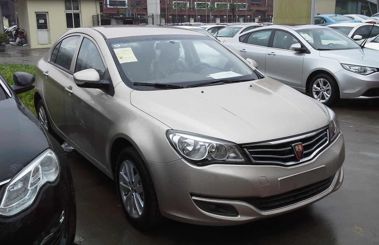 Roewe 350 facelift photographed in Shanghai, China.